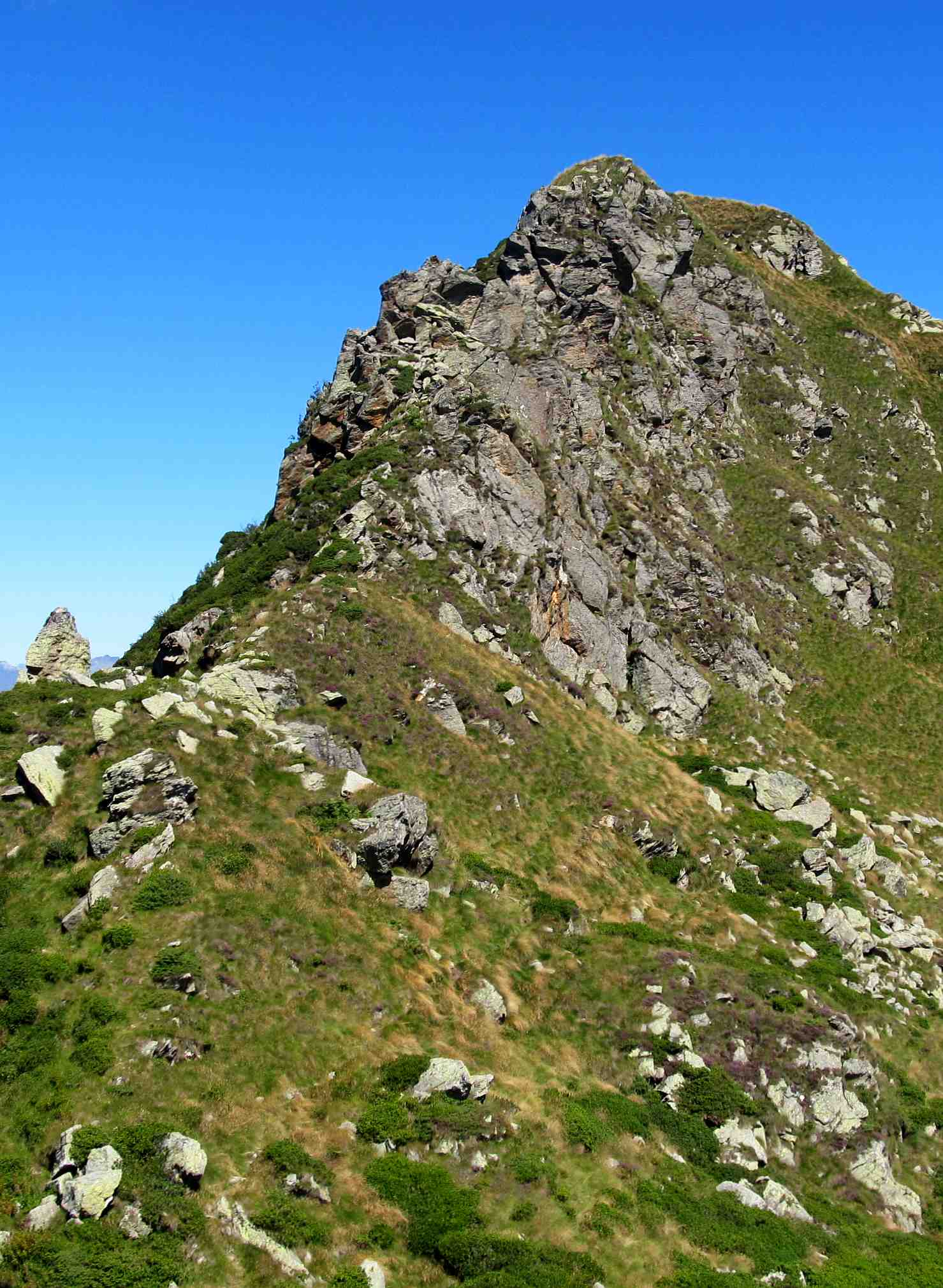 Testone delle Tre Alpi (BI/VC, Italy): SW ridge